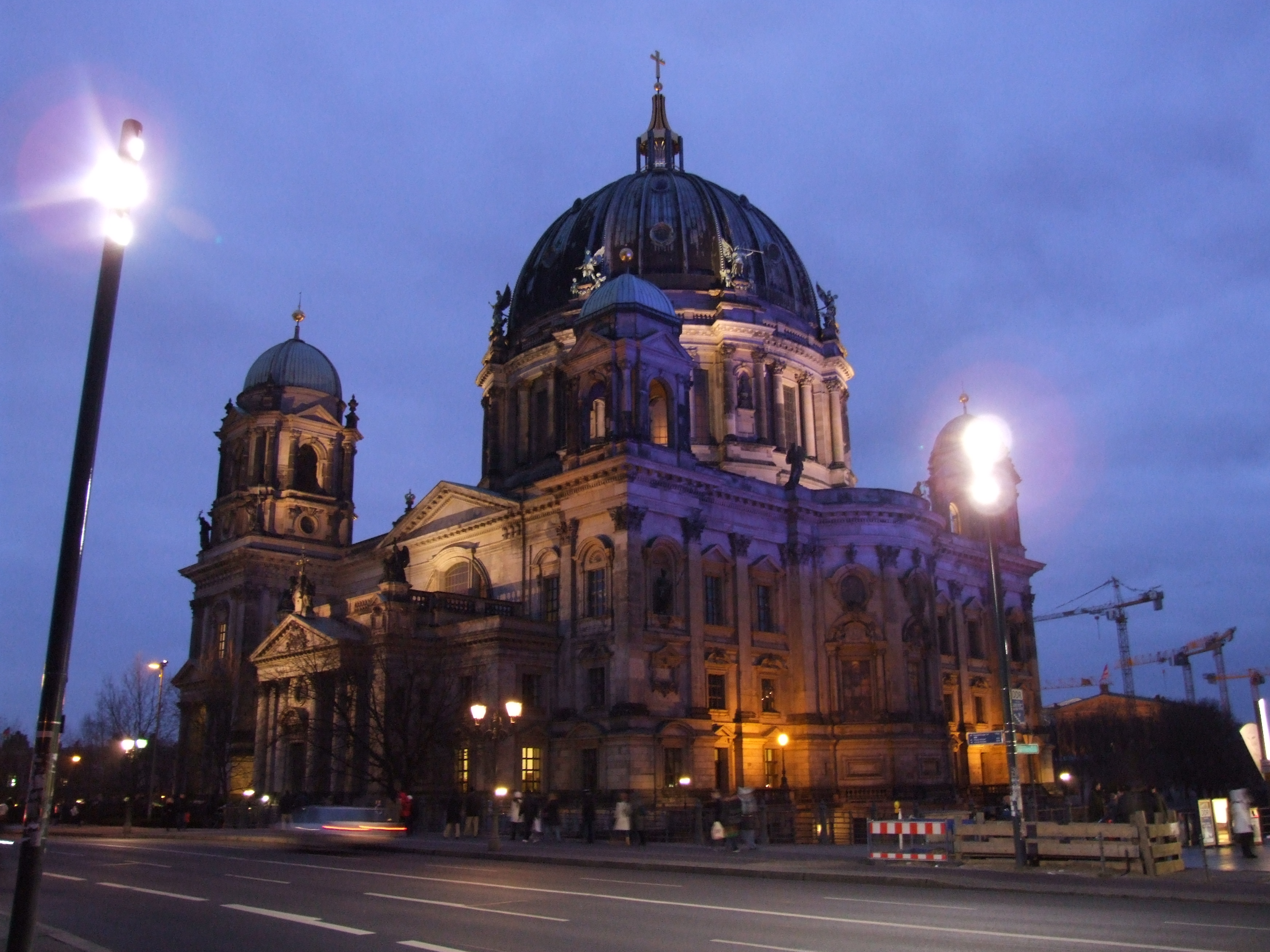 Berliner Dom (Berlin Cathedral); view from Unter den Linden boulevard